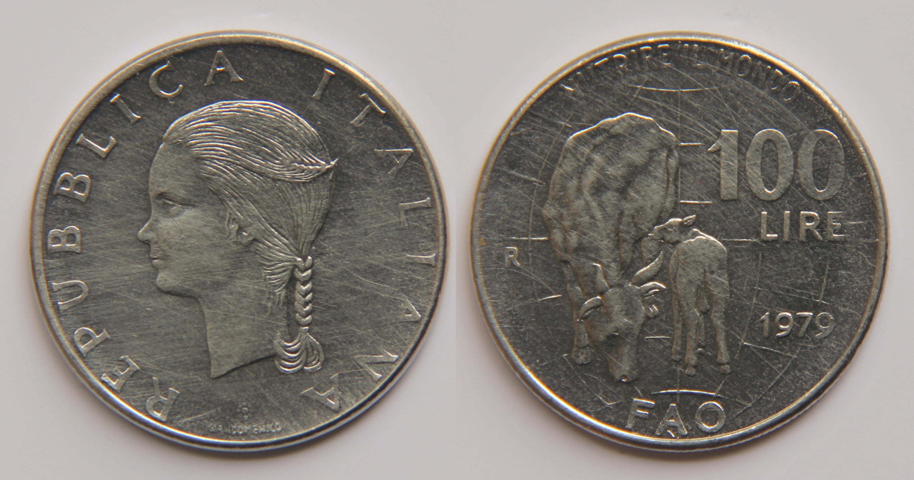 Face value: 100 Italian lira. Country: Italy. Year of minting: 1979. Metal: Stainless steel. Shape: Round. Obverse: Young woman with braid facing left and Repubblica Italiana (Republic of Italy) written in Italian. Reverse: Cow nursing calf, face value of coin and date. FAO is seen at the bottom and Nutrire il Mondo (